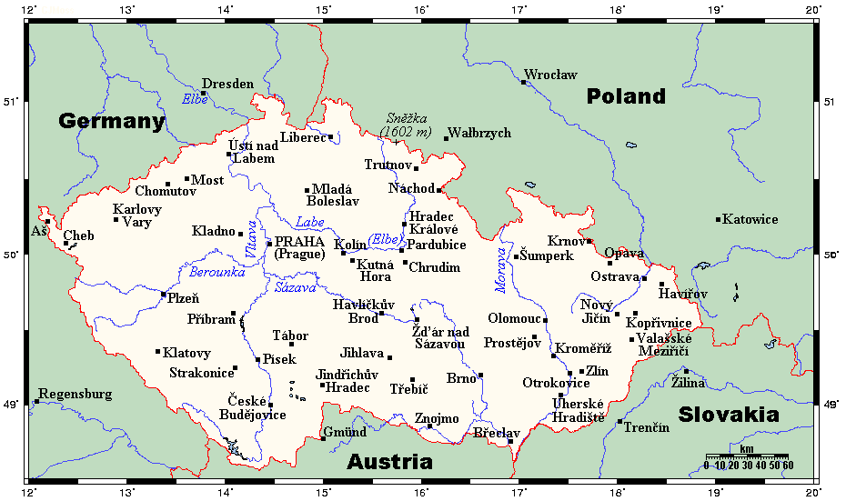 A map showing the Czech Republic's main cities and towns, and nearby areas in neighbouring countries. This map's source is here, with the uploader's modifications, and the GMT homepage says that the tools are released under the GNU General Public License.